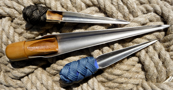 Three Swedish marline spikes.